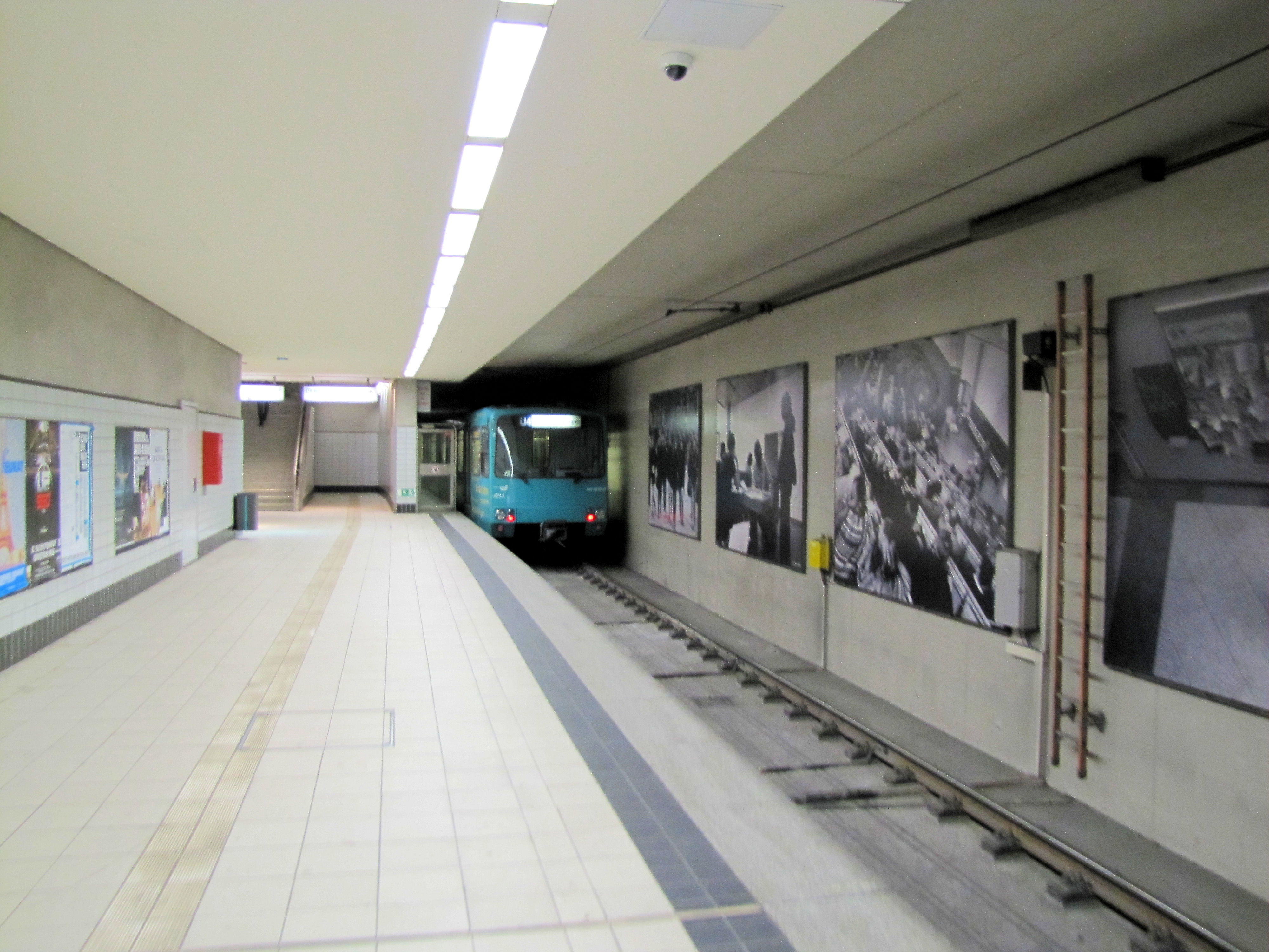 Underground station of "U 4" (B-line), "Bockenheimer Warte", at Frankfurt-Westend, Germany.